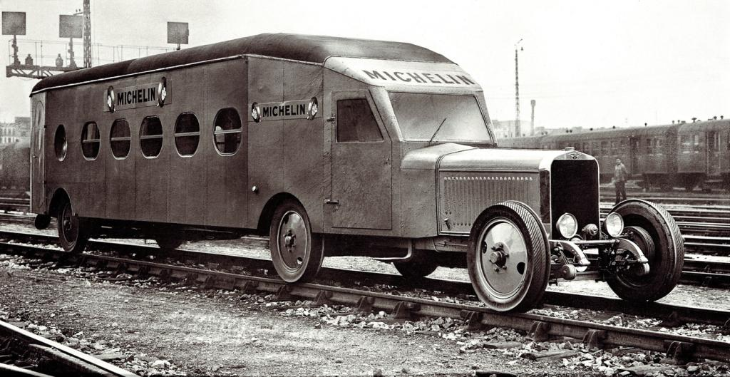 Prototype Micheline type 5, 1931